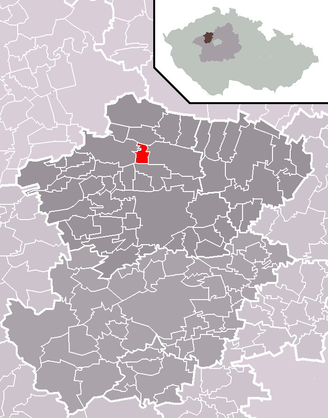 Location of Stradonice municipality within Kladno District and administrative area of Slaný as a Municipality with Extended Competence.